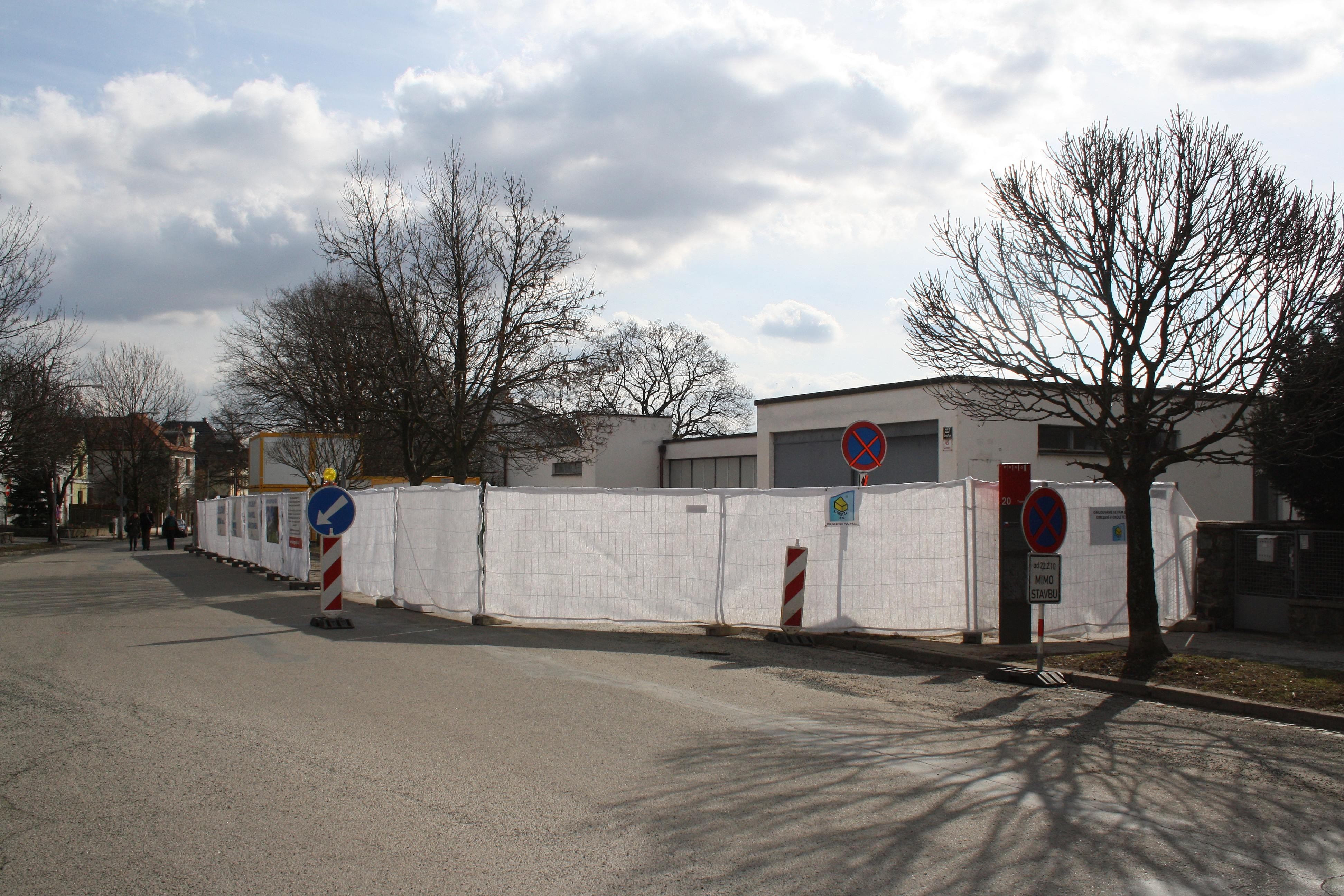 Villa Tugendhat in Brno, Czech Republic reconstruction in 2010.